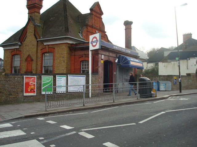 Wimbledon Park Underground Station